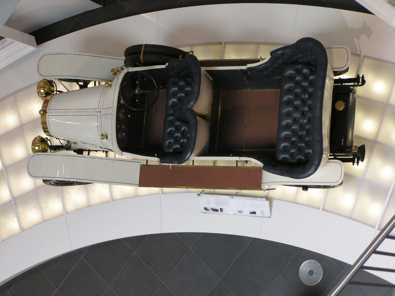 Audi Type E (Phaeton), top view